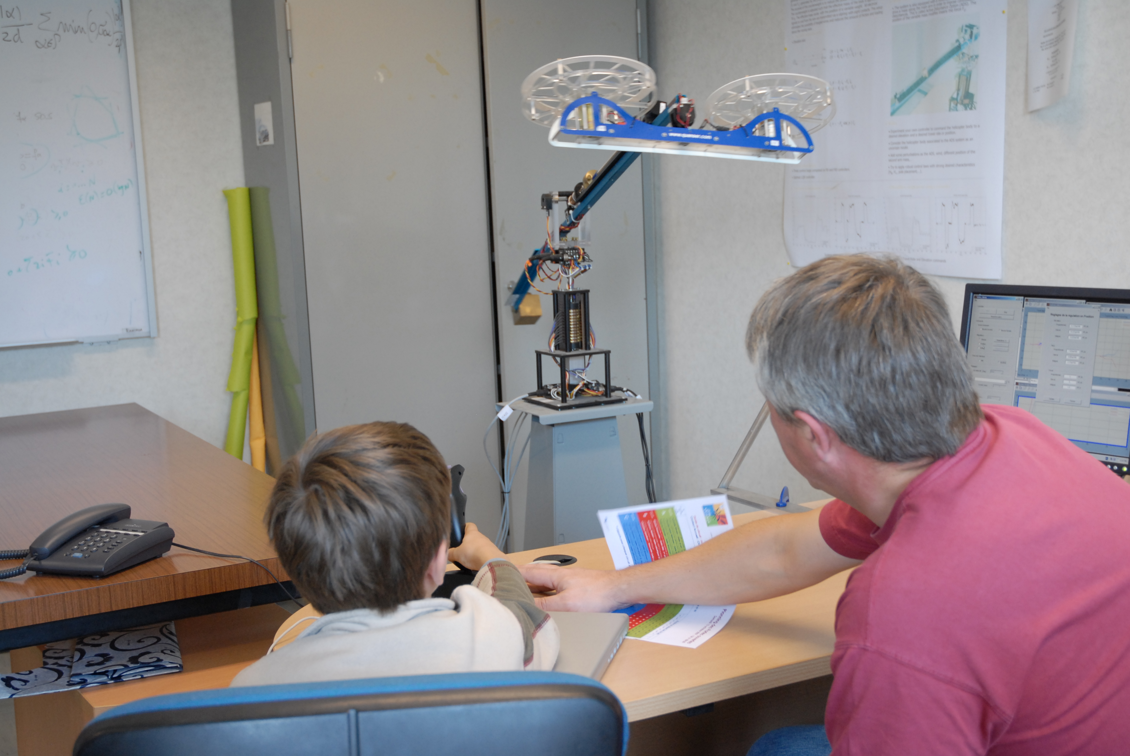 A researcher in control theory showing a child a device with propellers (open doors for popular science at LAAS-CNRS in Toulouse, France).